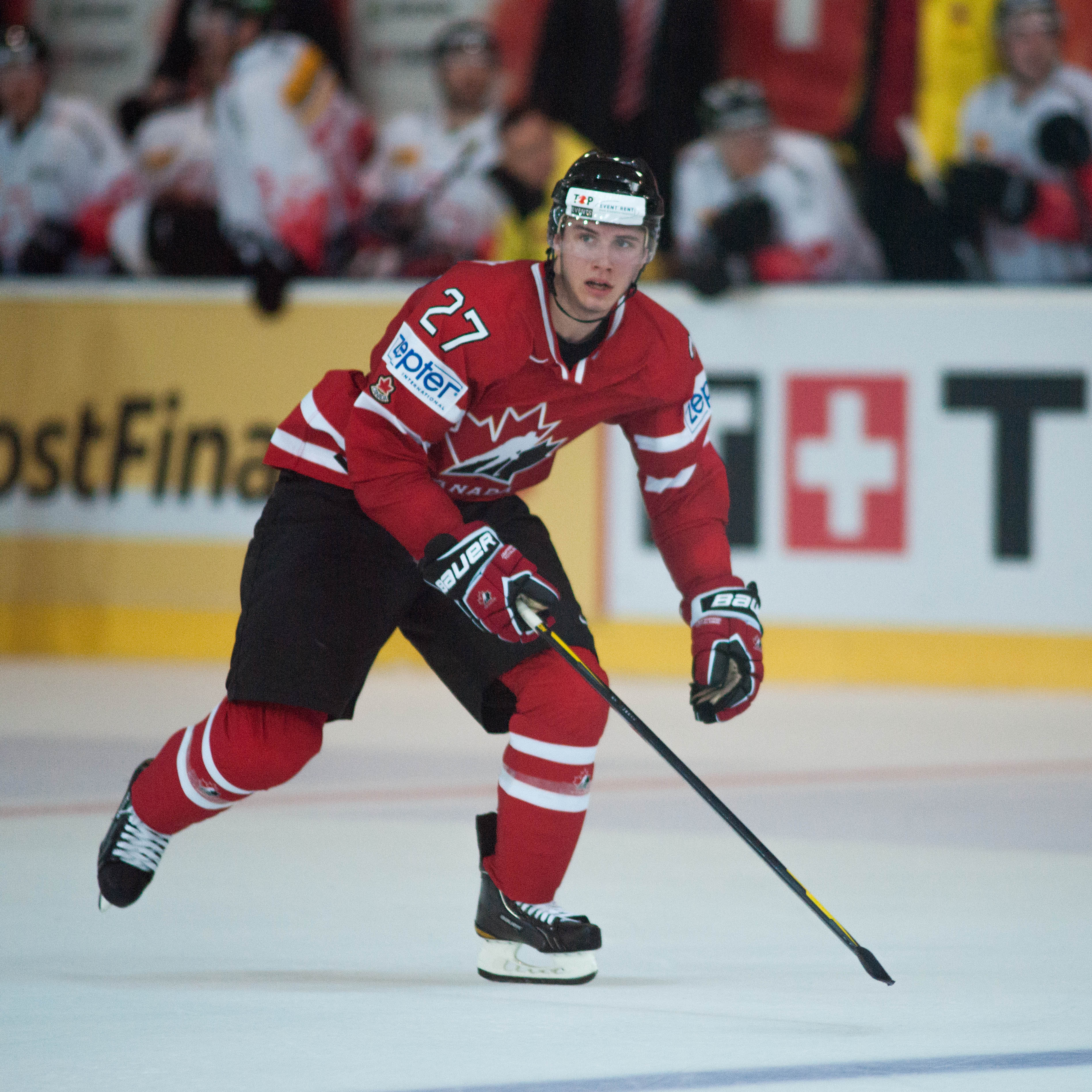 Switzerland vs. Canada, 29th April 2012